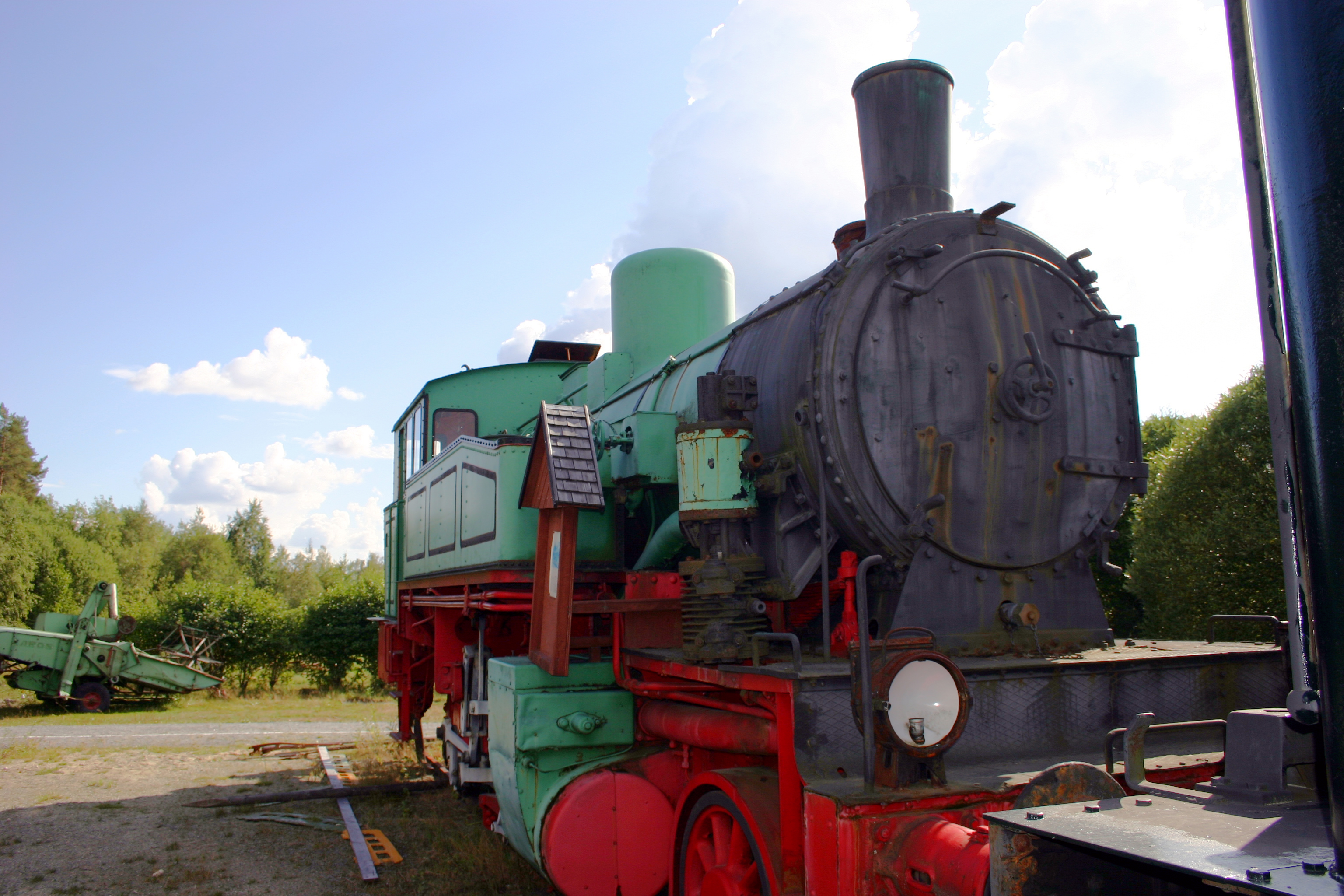 A steam locomotive of the Jämsänkoski industrial railway line at Haapamäki, Keuruu, Finland